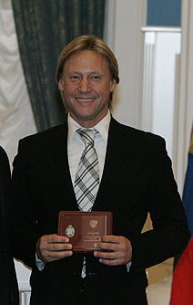 THE KREMLIN, MOSCOW. Ceremony for the presentation of state awards. Actor Dmitry Kharatyan receives the title People's Artist of Russia.